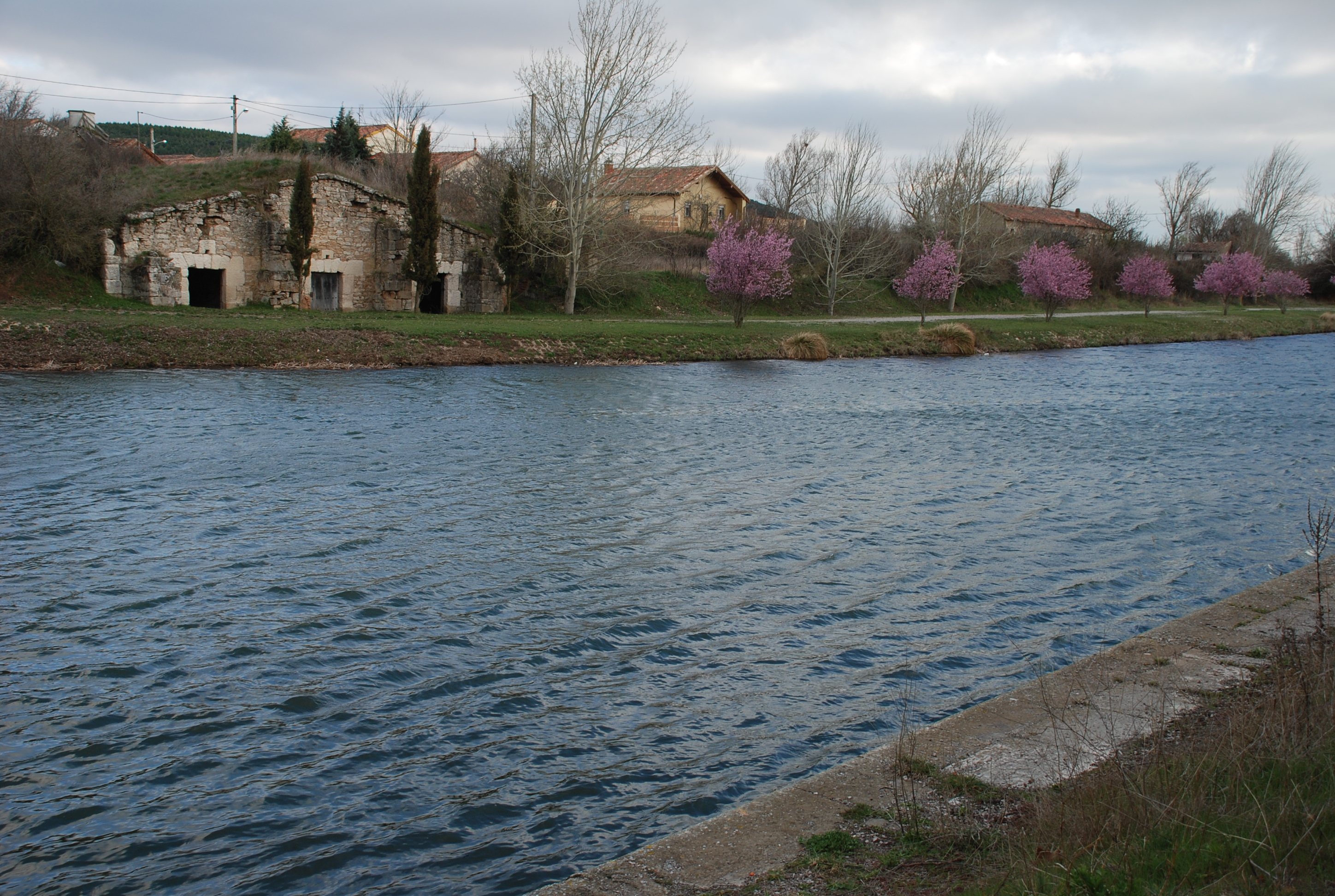 General View of the darsenas at river port of the S.XVIII in the birth of the Canal of Castile in Alar del Rey (Palencia, Castile and León).